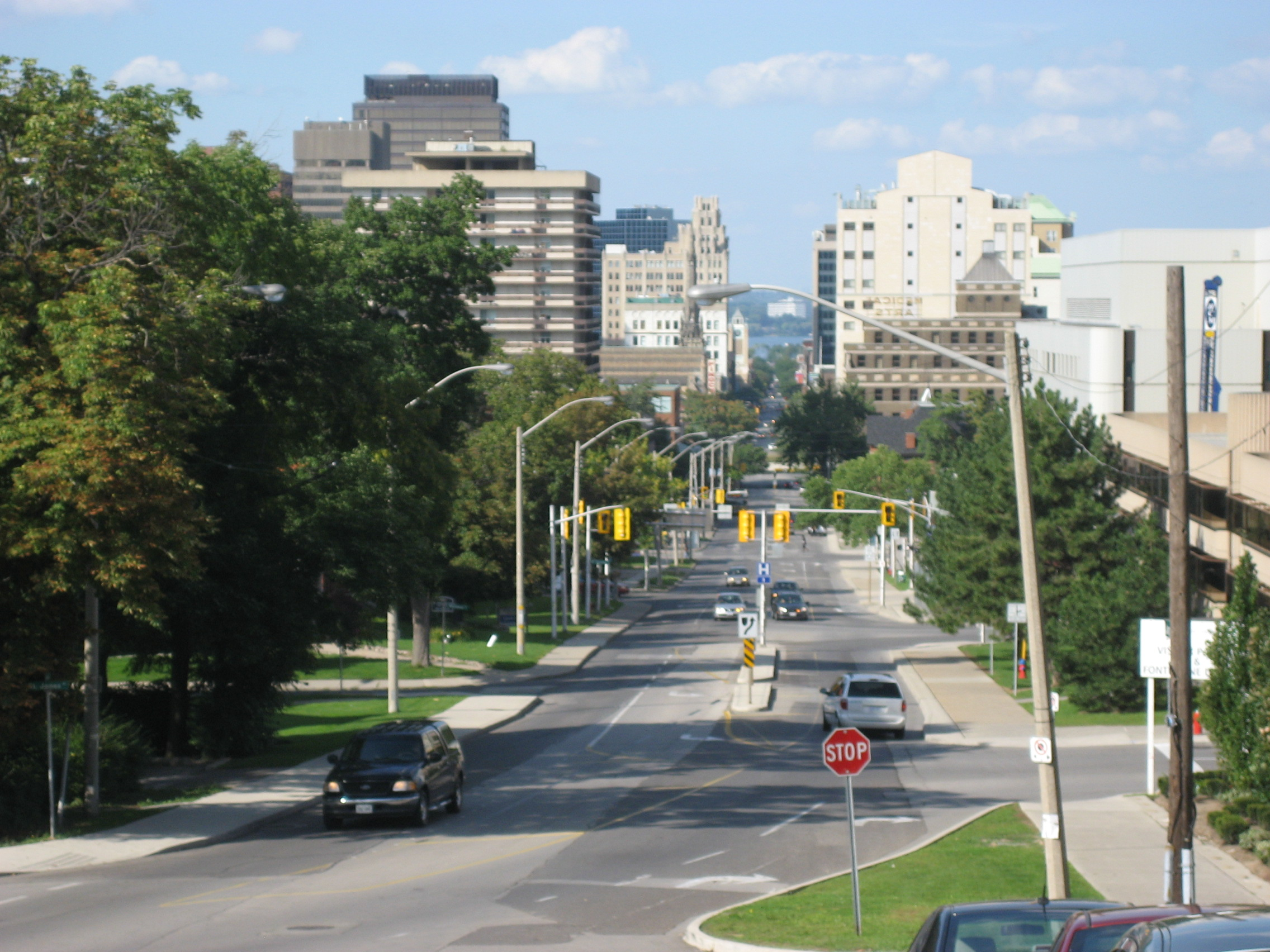 James Street South, looking North, Hamilton, Canada.